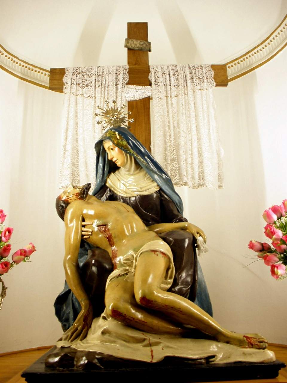 Conjunto escultórico de la Piedad en la iglesia de San Pablo de Salamanca (España)